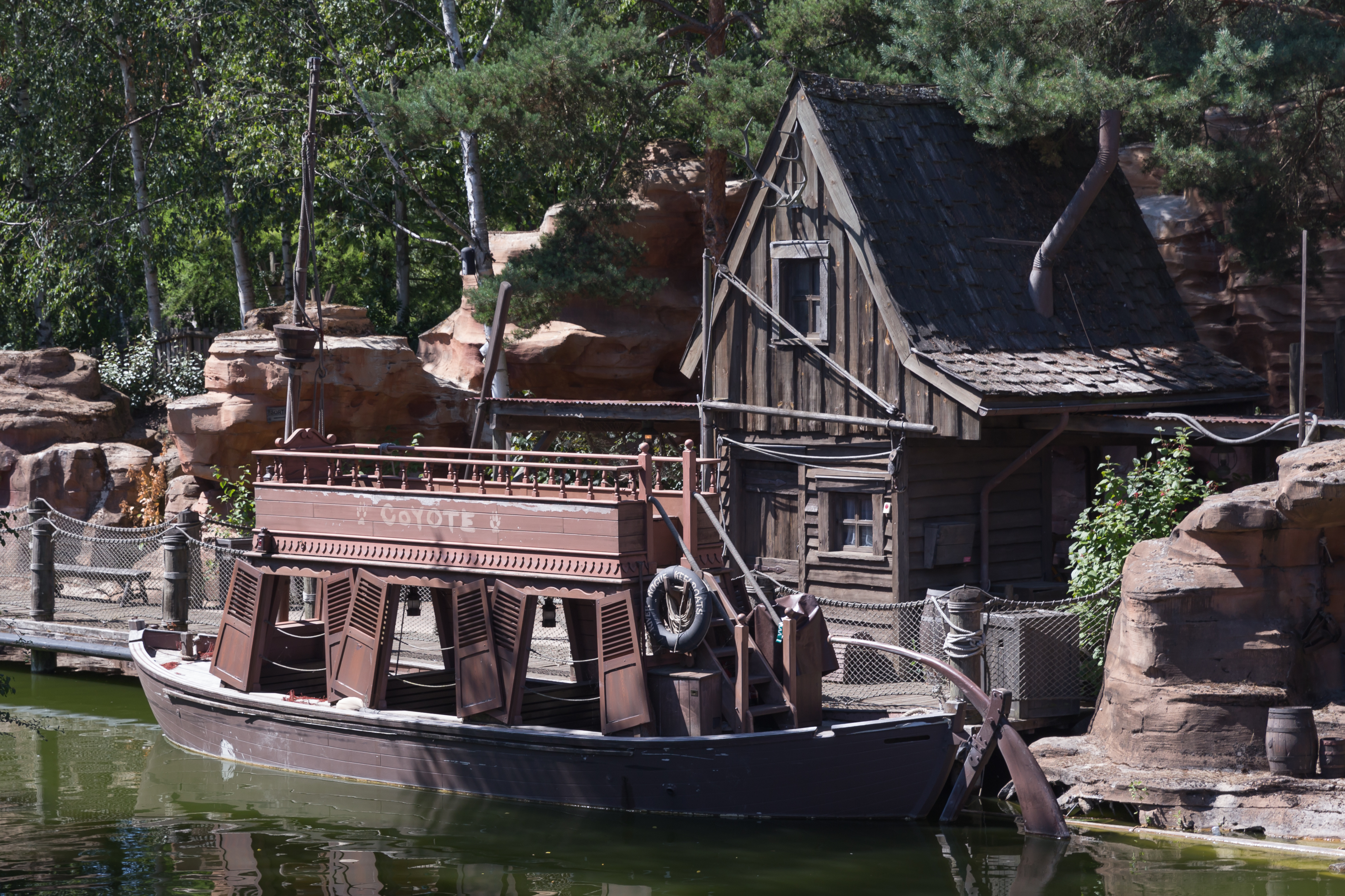 Boat house on the course of the Molly Brown Riverboat attraction at Disneyland Paris.